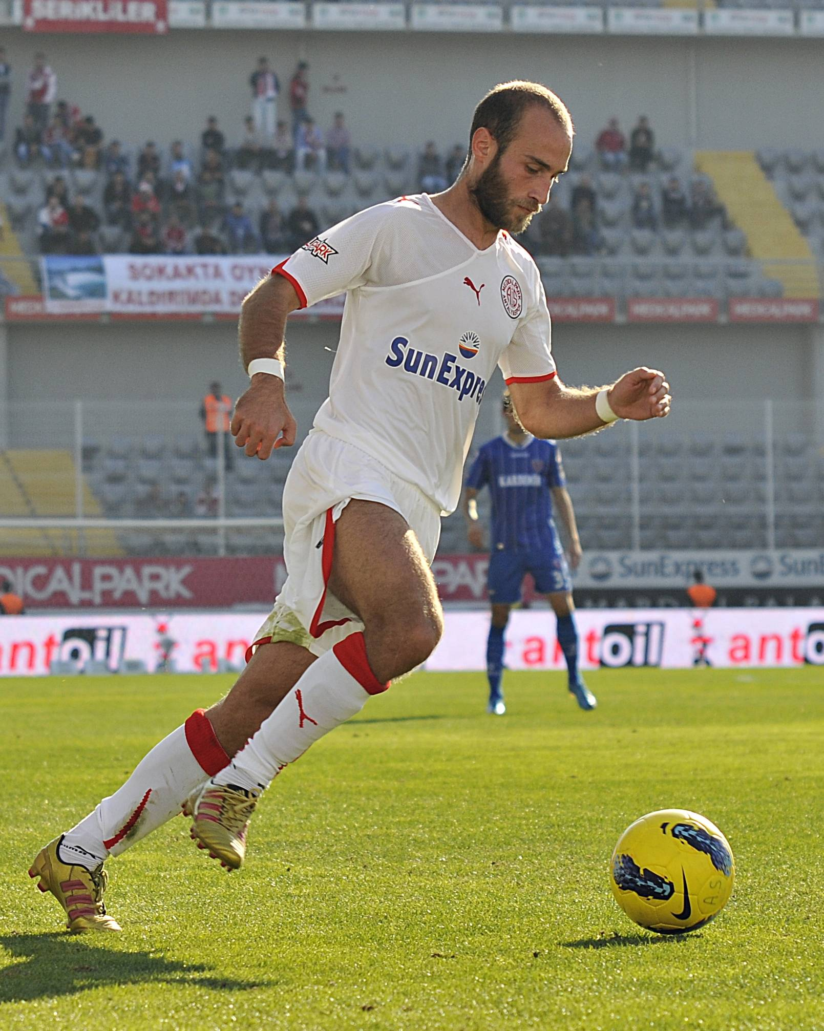 Photo : Murat Özgen